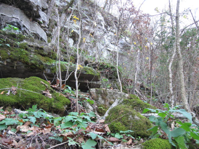 Habitat of Ovate-leaved Catchfly (Silene ovata) on the Sylamore District of the Ozark National Forest, Arkansas, USA. Plants growing in center of photo and nearby rocks and talus. Nov. 11, 2011.